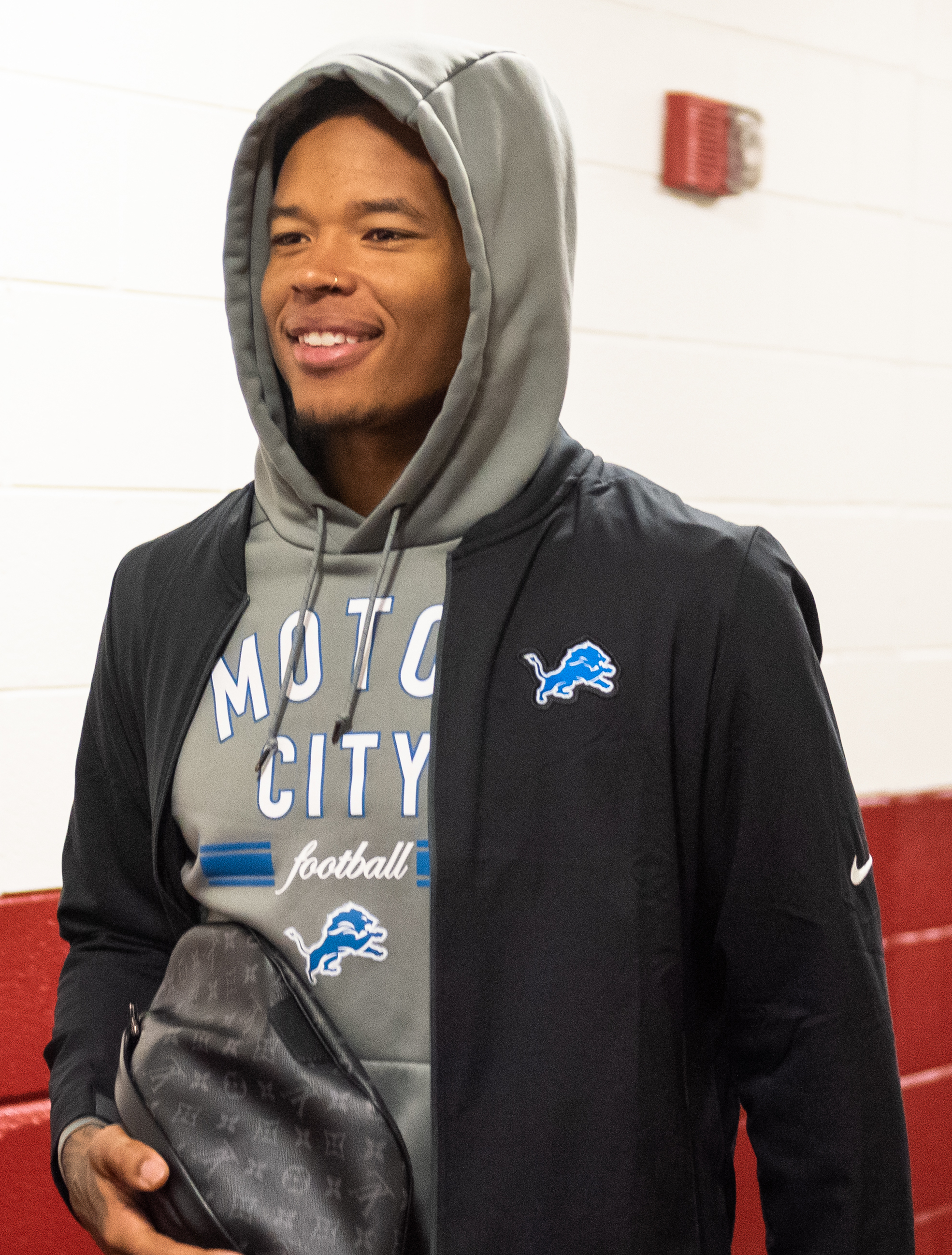 In 2019